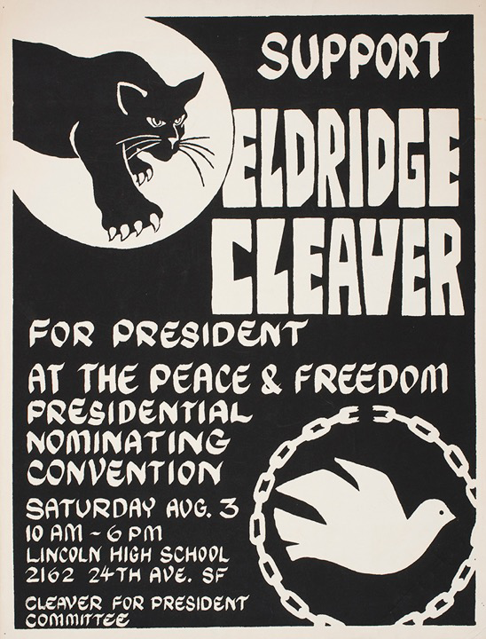 An election poster from 1968 promoting Eldridge Cleaver of the Black Panther Party, running on the Peace and Freedom Party ticket.